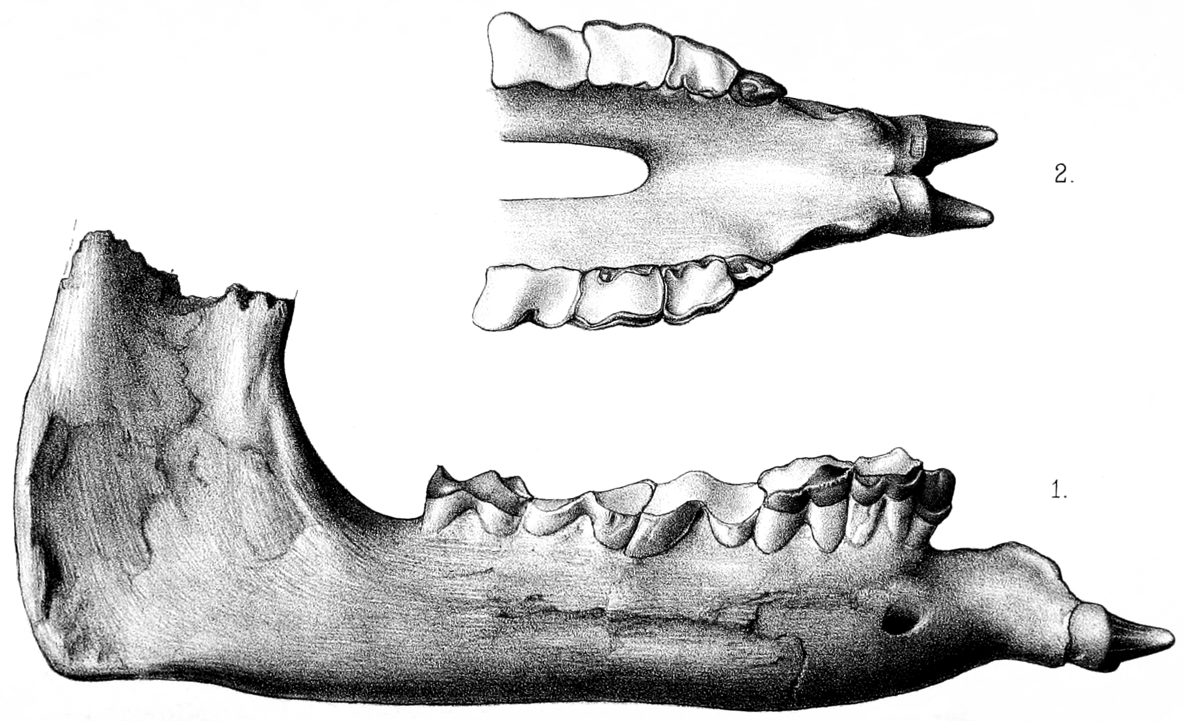 Lower jaw of Paraceratherium bugtiense. 1. Right half of ramus. 2. Upper surface of front portion of ramus drawn by Gertrude Mary Woodward.